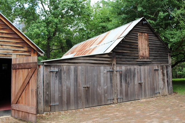 Goldfinders Inn: Barn